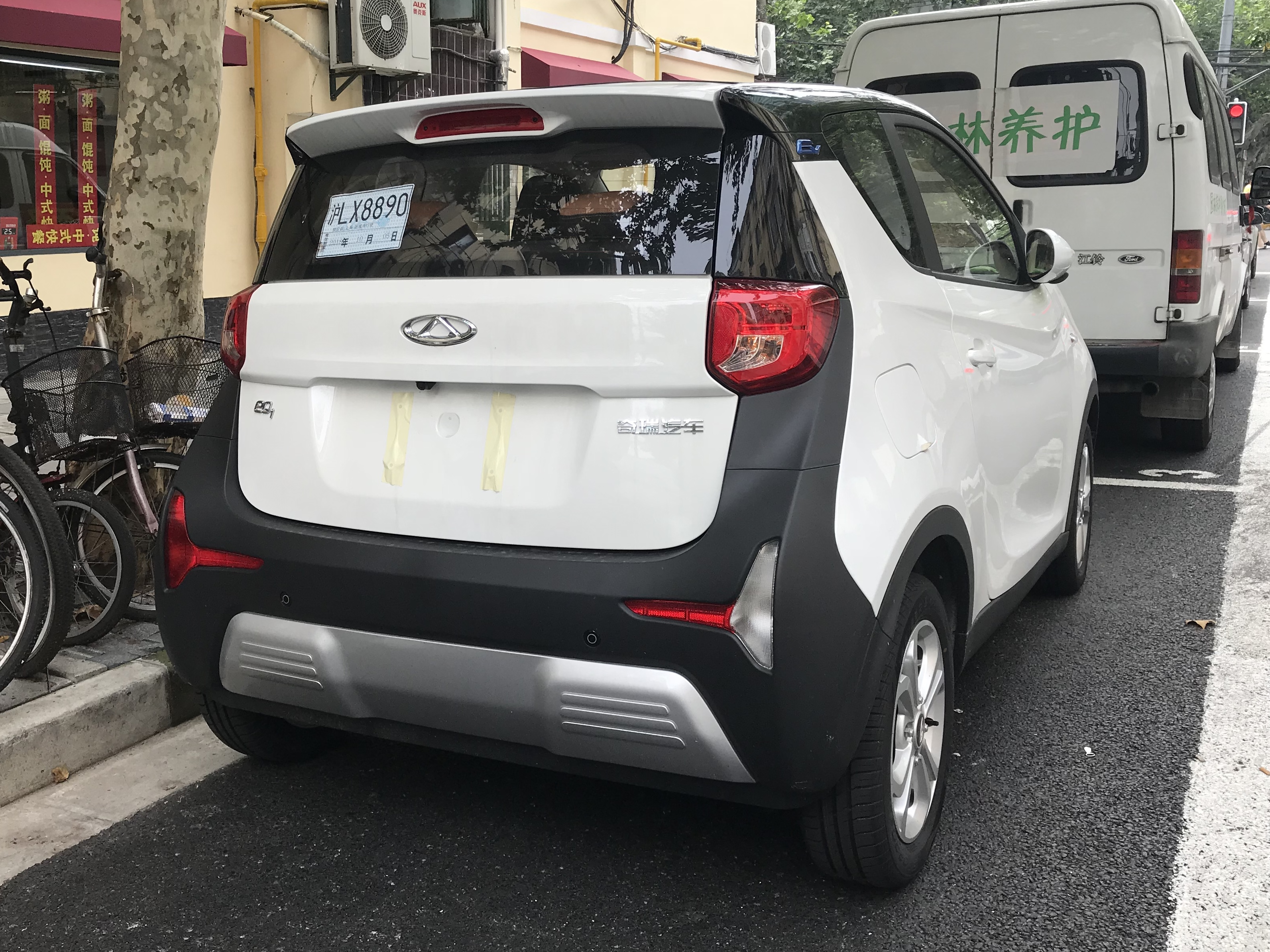 Chery eQ1